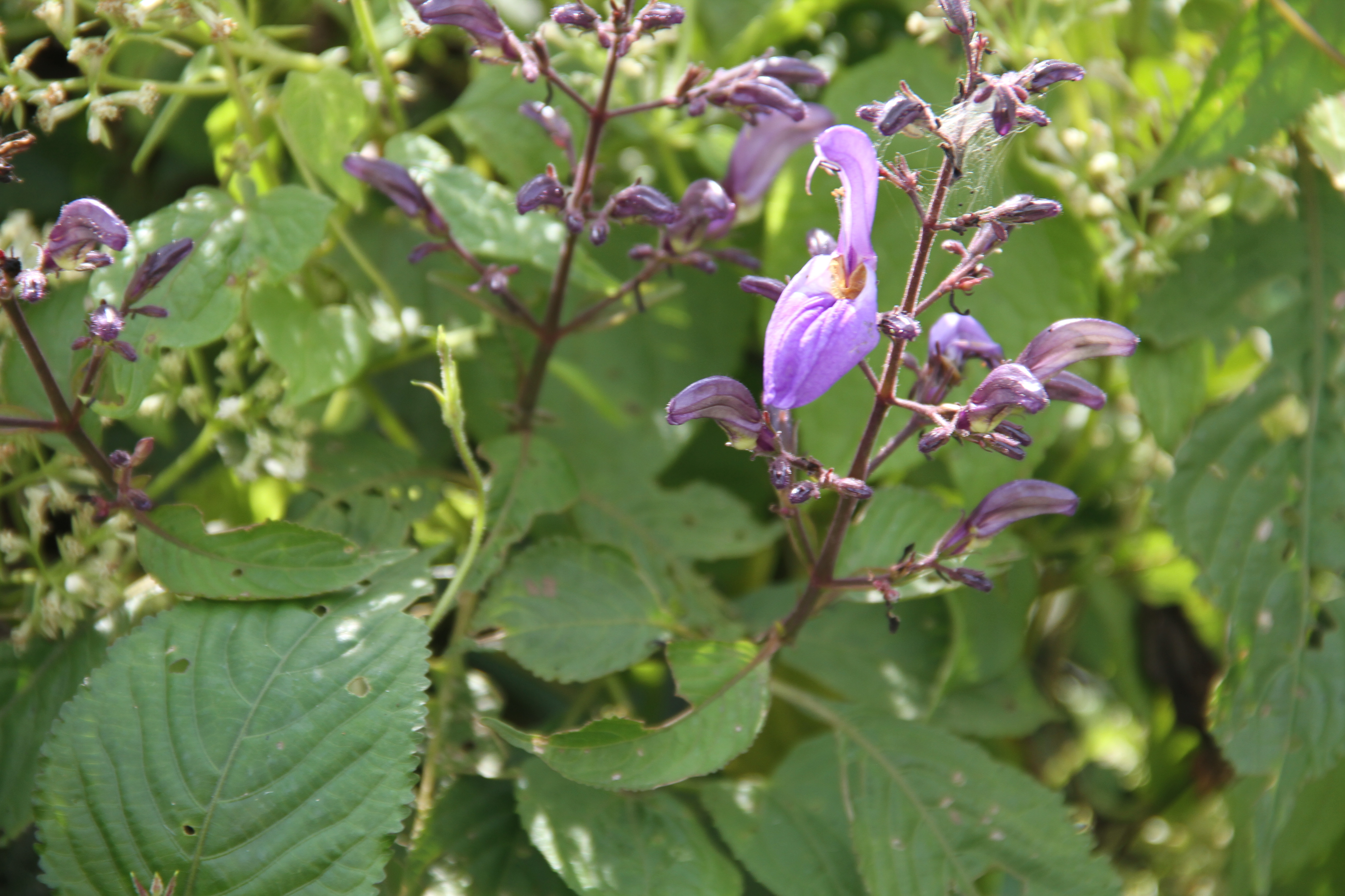 Brillantaisia owariensis between Luba and Moka, Bioko, Equatorial Guinea, ca. 800 m (+/-100m), December 2013 The making of this document was supported by the Community-Budget of Wikimedia Germany.